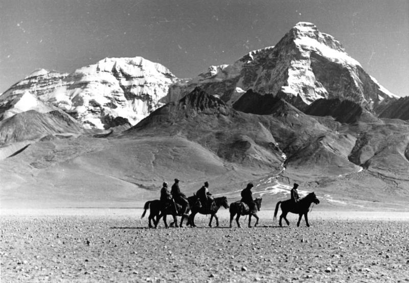 Tschomolhari [Chomolari], von Tunasteppe gesehen Information added by Wikimedia users.